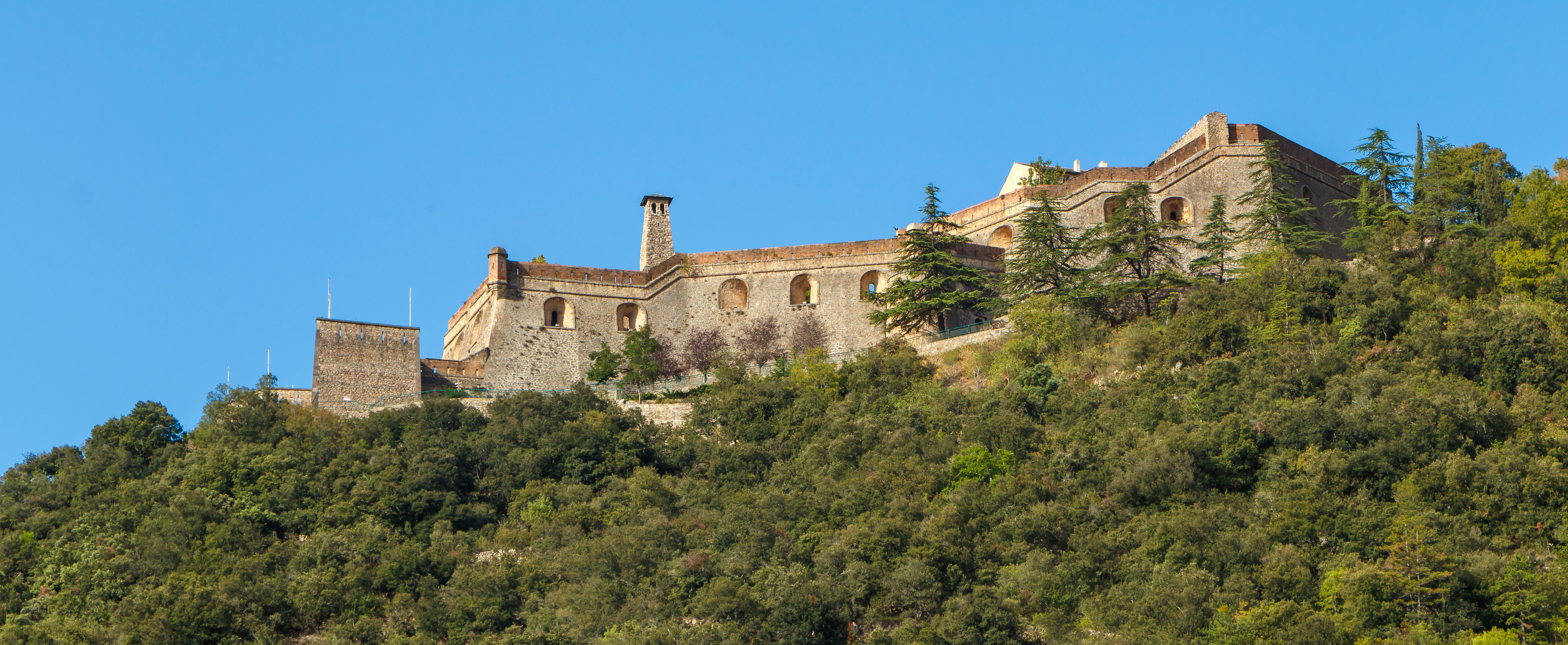 Fort Libéria, Villefranche-de-Conflent, Pyrénées-Orientales department, France